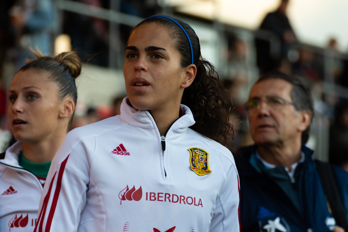 Nahikari García at a match vs Gemrany in November 2018